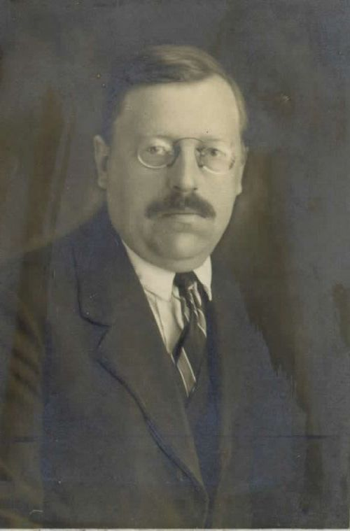 Franc Schaubach (1881-1954)